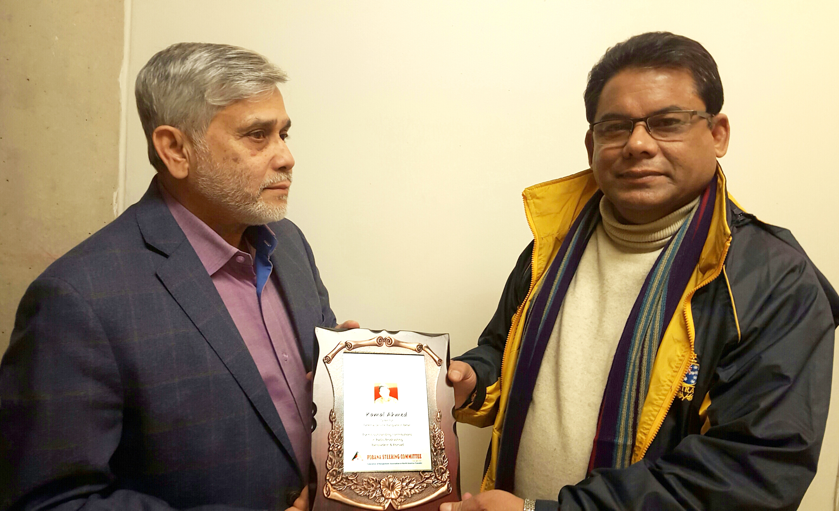 Kamal Ahmed receives FOBANA Award from Canada